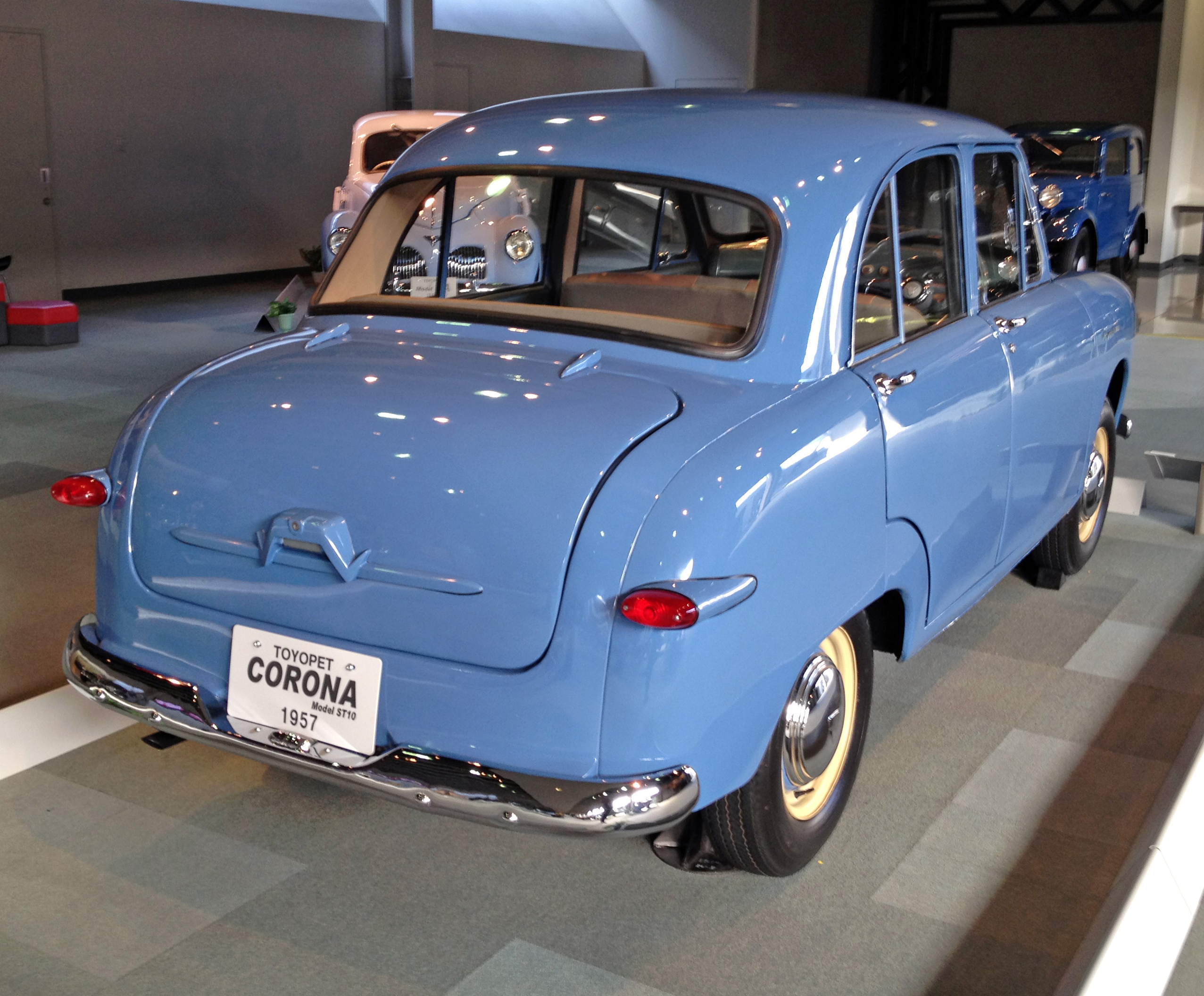 1957 Toyota "Toyopet" Corona ST10 at the Toyota Museum